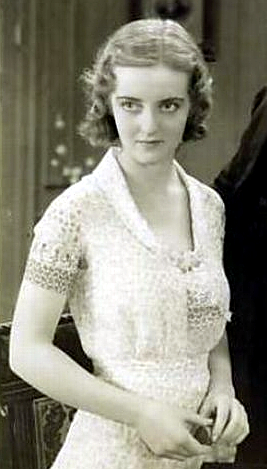 Cropped publicity still of Bette Davis in the 1931 film The Bad Sister. Such images were taken by a studio photographer, and then disseminated to the media and the public to promote the film (see Film still).